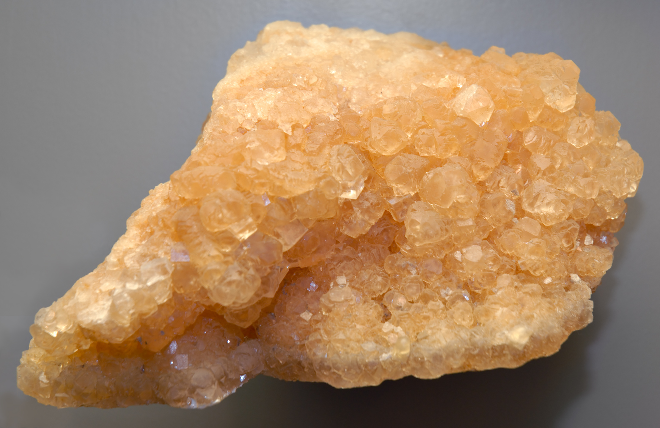 This image shows the mineral Sylvin, found in Sondershausen, Germany.